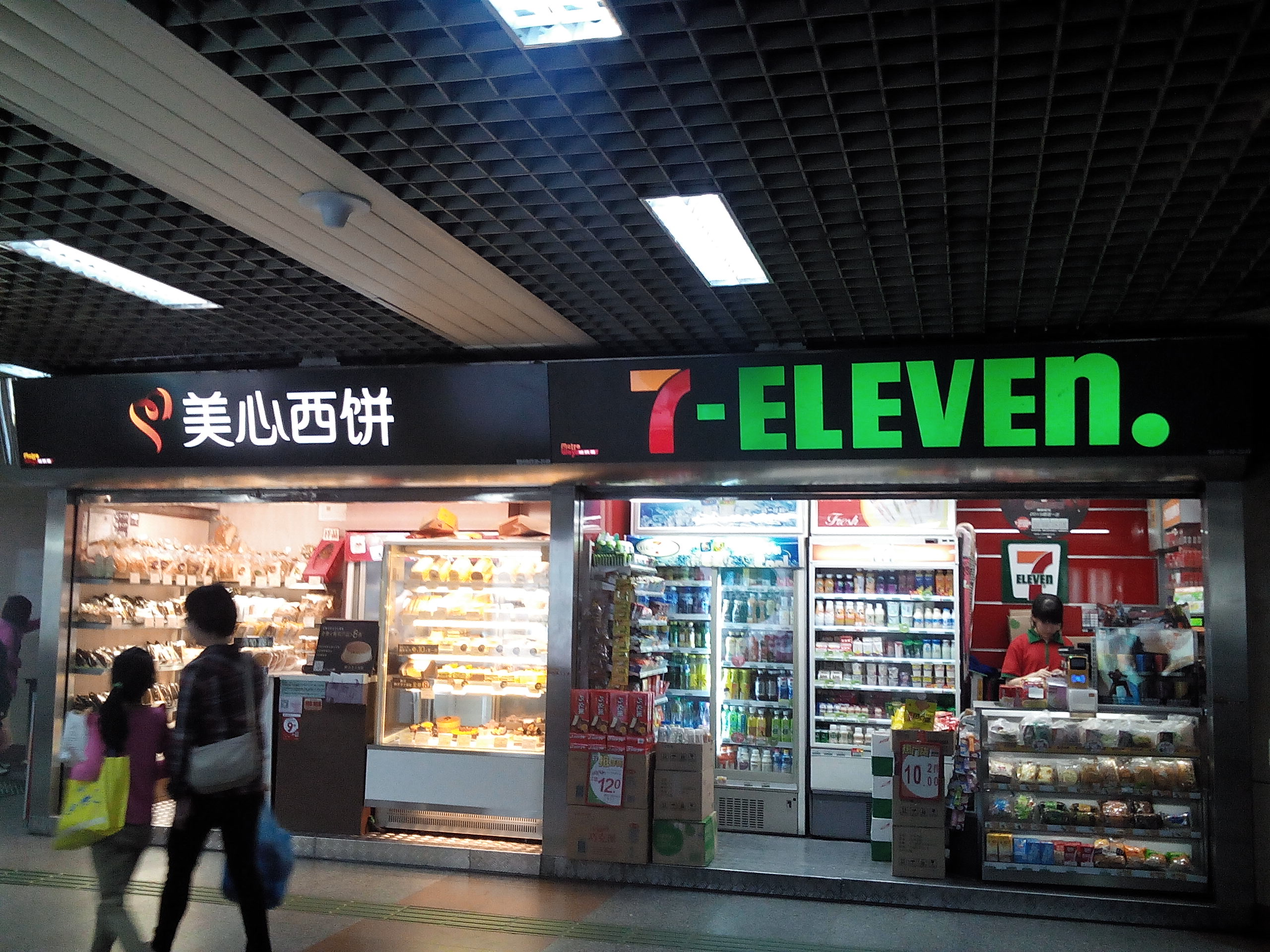 201504 Two shops at Dongshankou Station